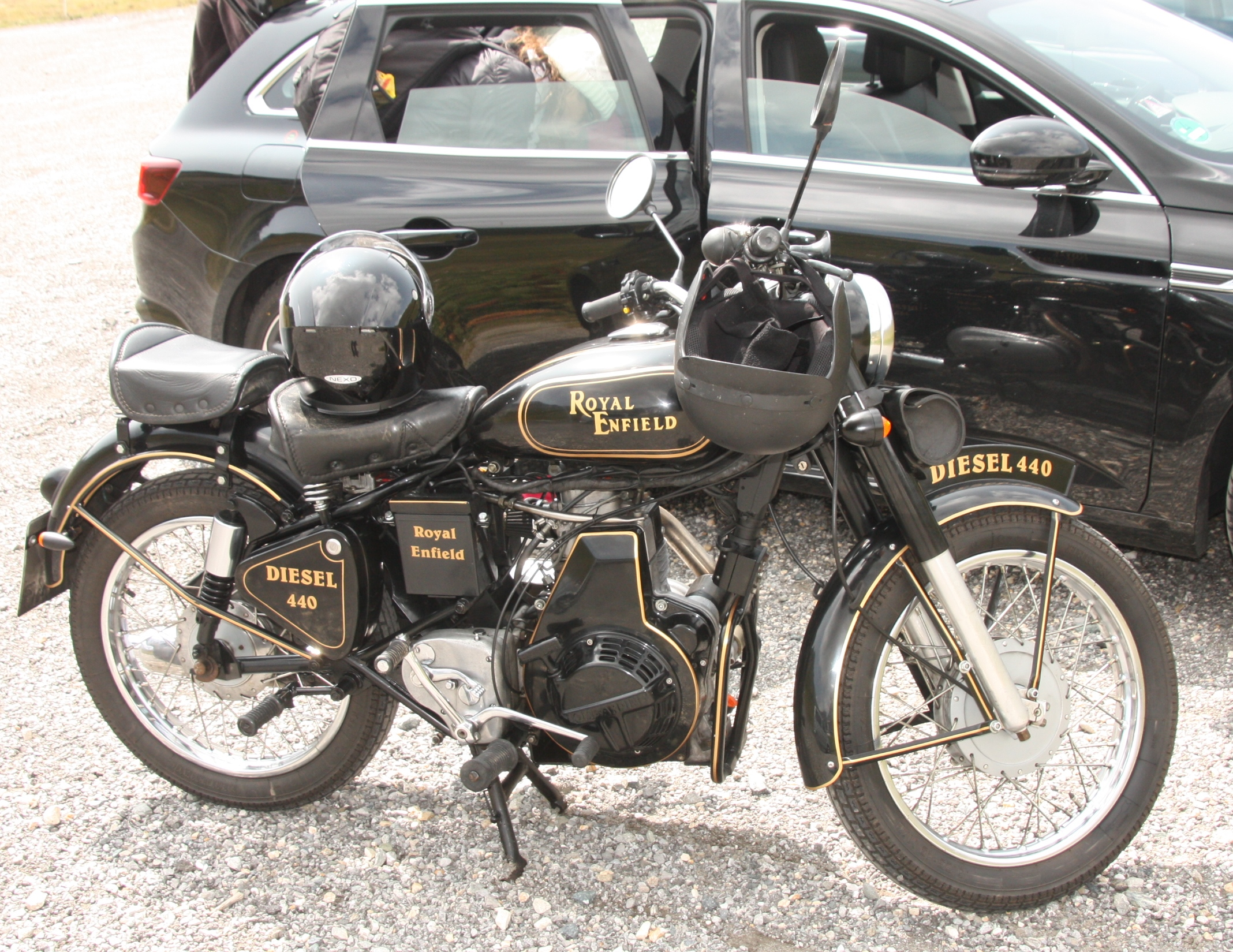 Royal Enfield Diesel 440 at Grossglockner High Alpine Road